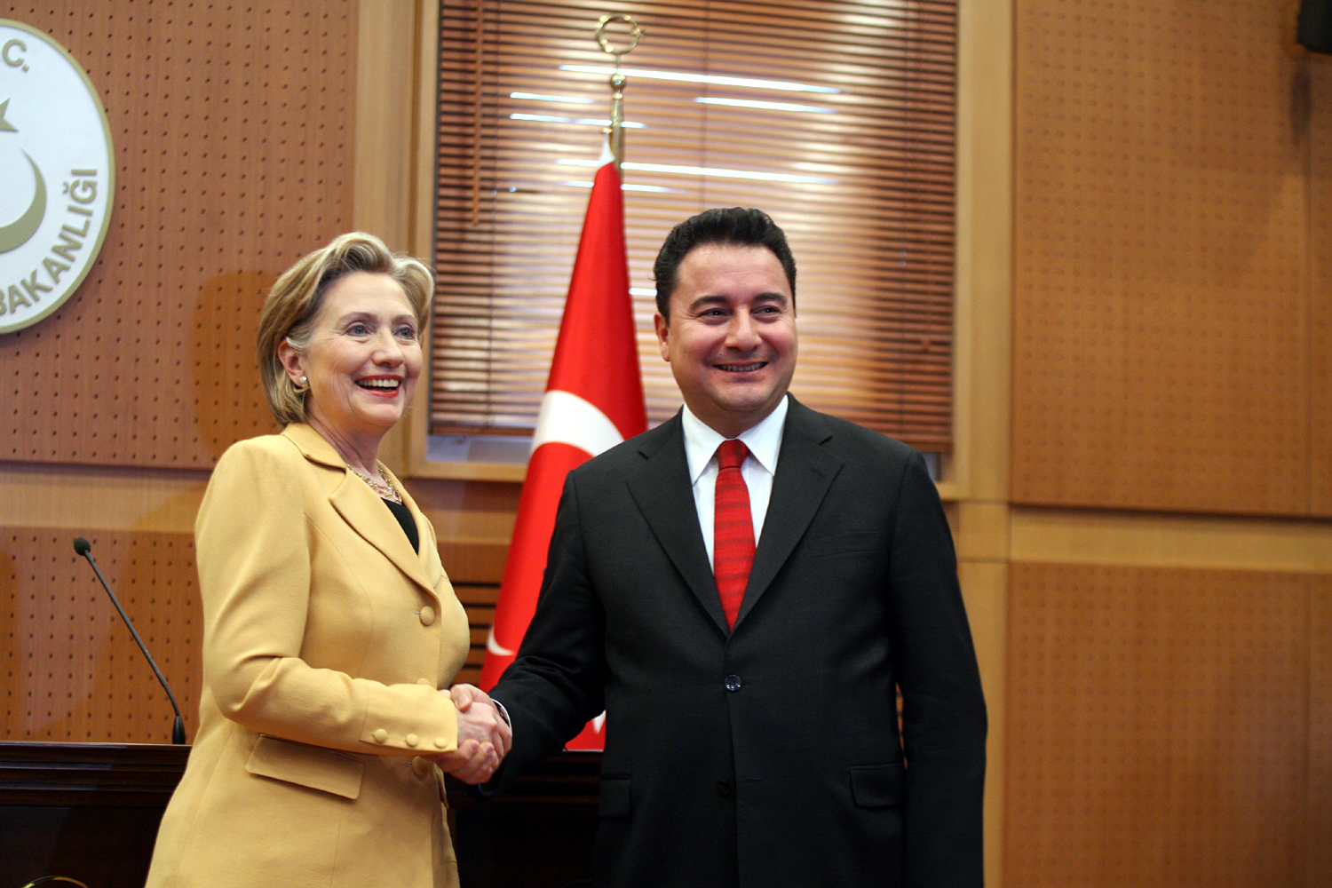 U.S. Secretary of State Hillary Rodham Clinton with Turkish Foreign Minister Ali Babacan after their joint press conference. Turkish Ministry of Foreign Affairs, Ankara, Turkey March 7, 2009.